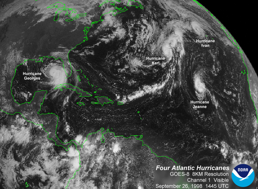 This image shows four Atlantic hurricanes occuring at once.